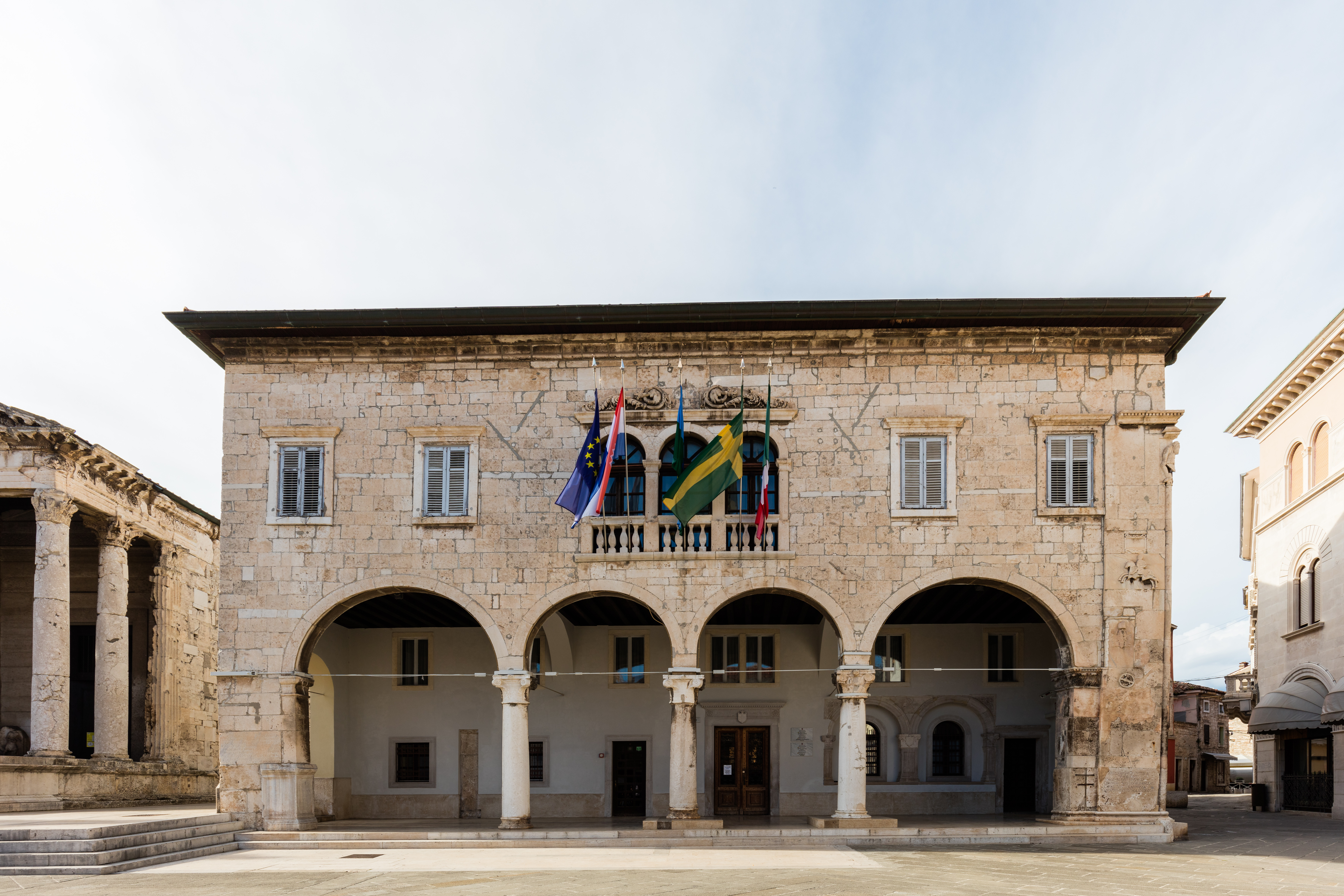 Pula town hall, Croatia. This is a a photo of a cultural heritage in Croatia with ID: Z-5638